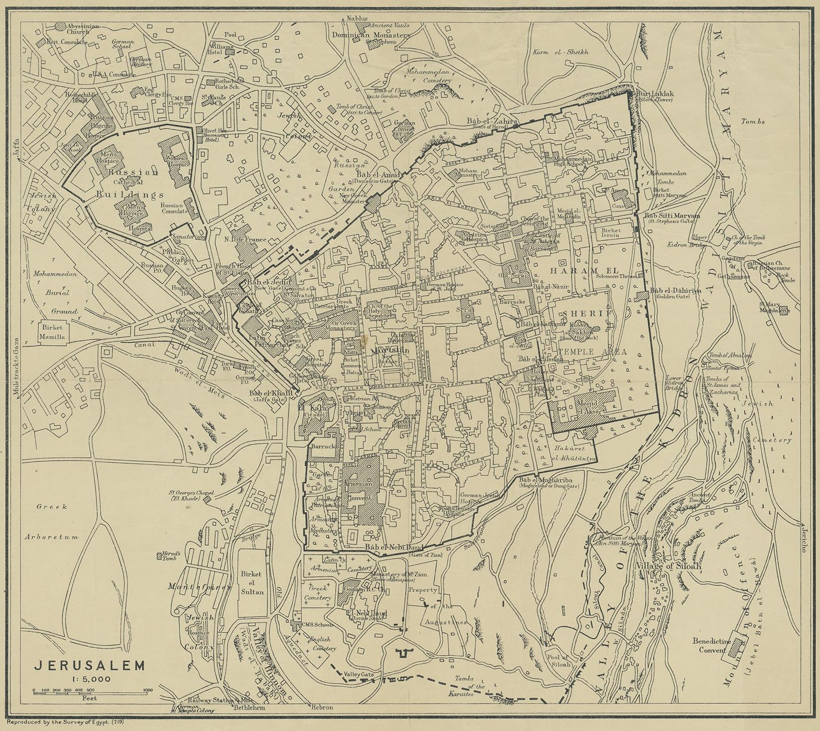 An accurate measurment map of Jerusalem, before 1908.